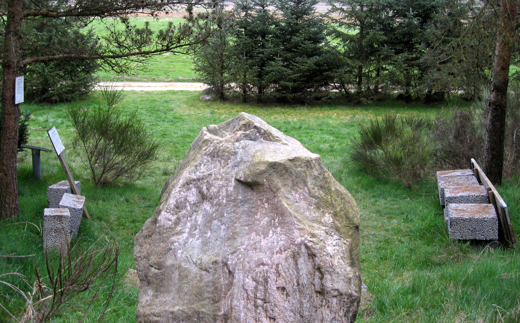 Fællesskabets Mindelund af 1969, a memorial for Danes serving in the German army at the Eastern Front during World War II. It's located at Kongensbro near Silkeborg in Jutland.